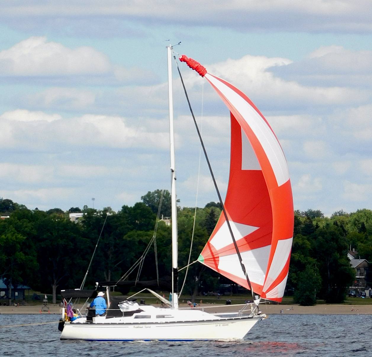 A Mirage 30 sailboat named Highland Spirit flying its spinnaker.